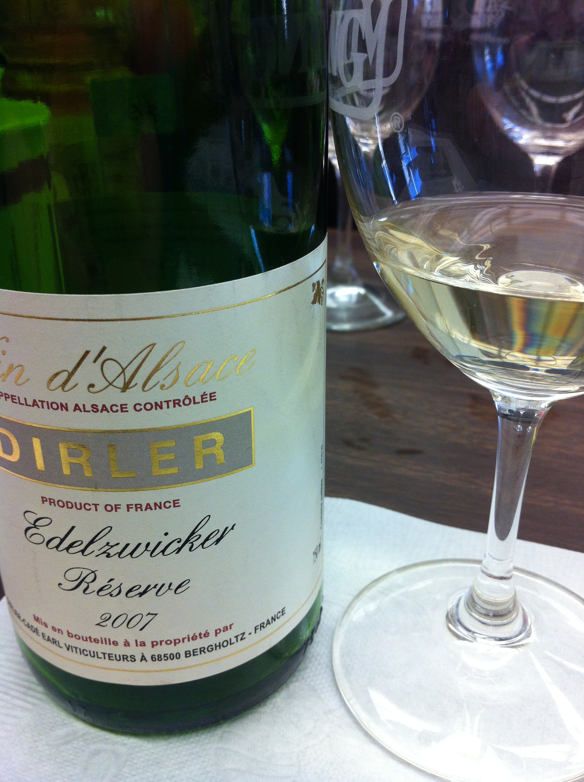 French wine from the Alsatian wine region produced in an "Edelzwicker" style meaning that it is a blend of any variety allowed in Alsace